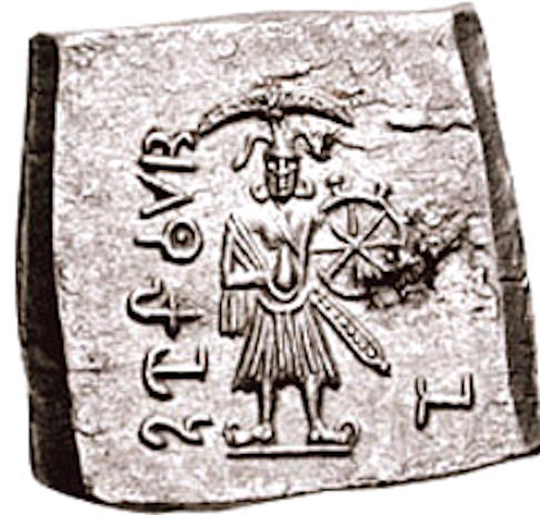 Vasudeva Krishna on a coin of Agathocles of Bactria circa 180 BCE [1]